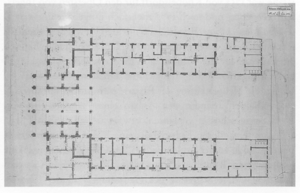 Potsdam, Palast Barberini, plan of the ground floor, drawing by Rudolf Hesse (?), ca. 1850